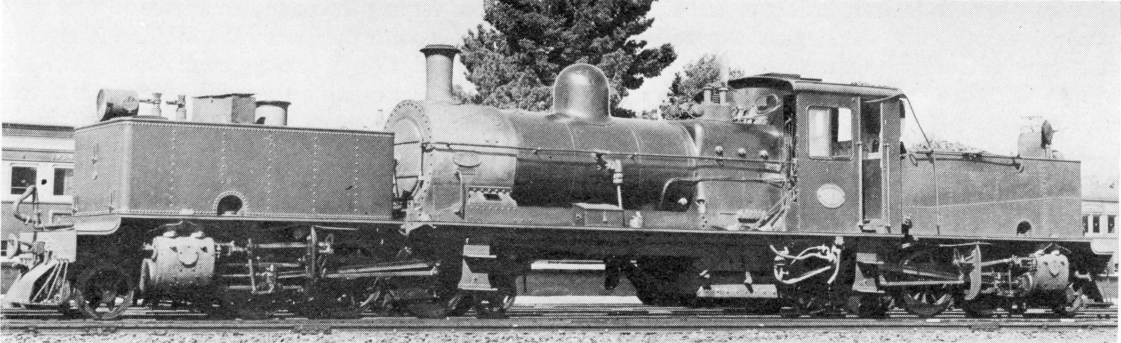 SAR Class GB 2160 (2-6-2+2-6-2)